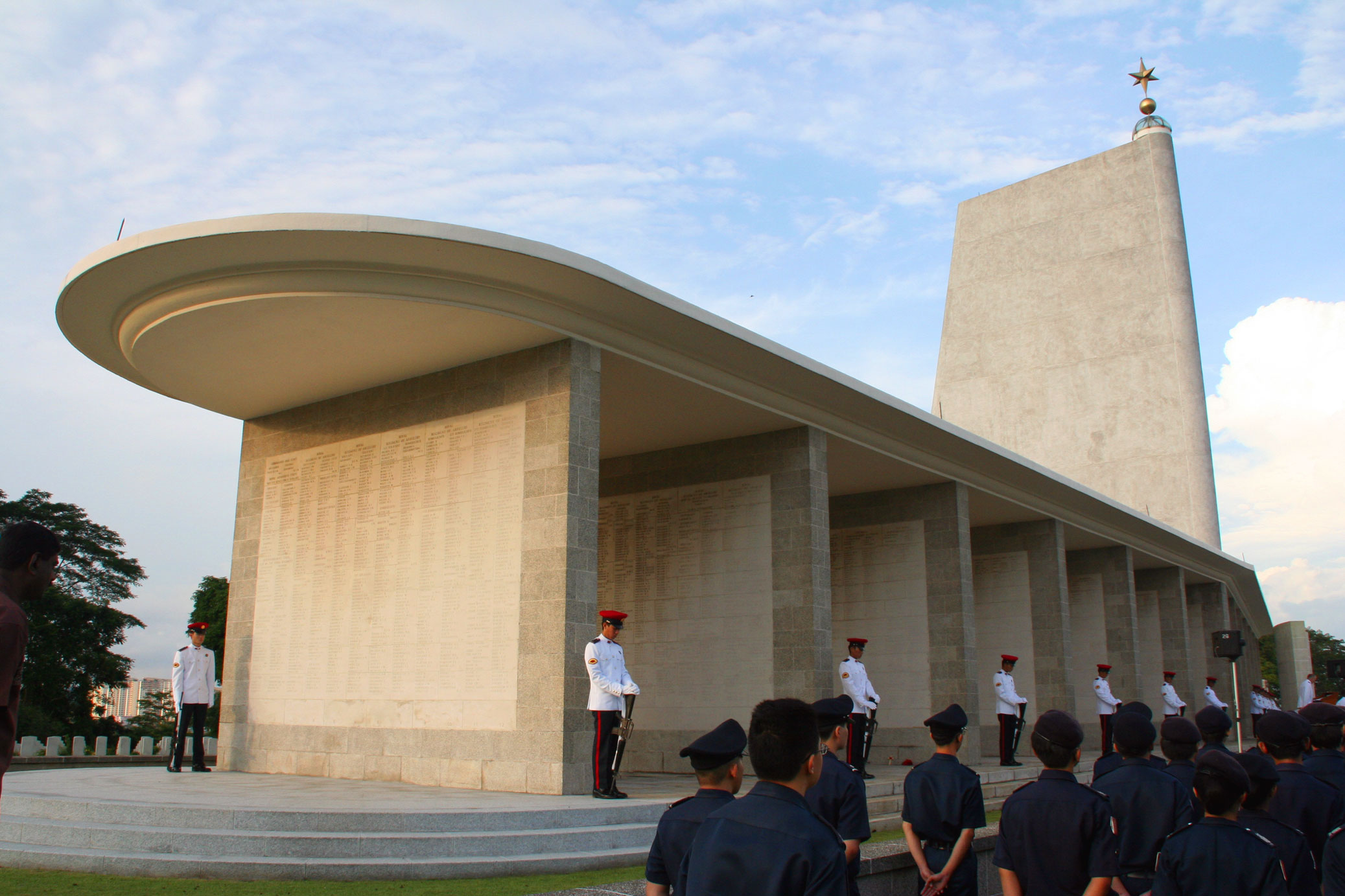 Description: Rememberance Day Ceremony proceedings at the Kranji War Memorial. Source: Self-made Location: Kranji War Memorial, Singapore Date: 13/11/2005 07:42 Photographer/Painter: Huaiwei